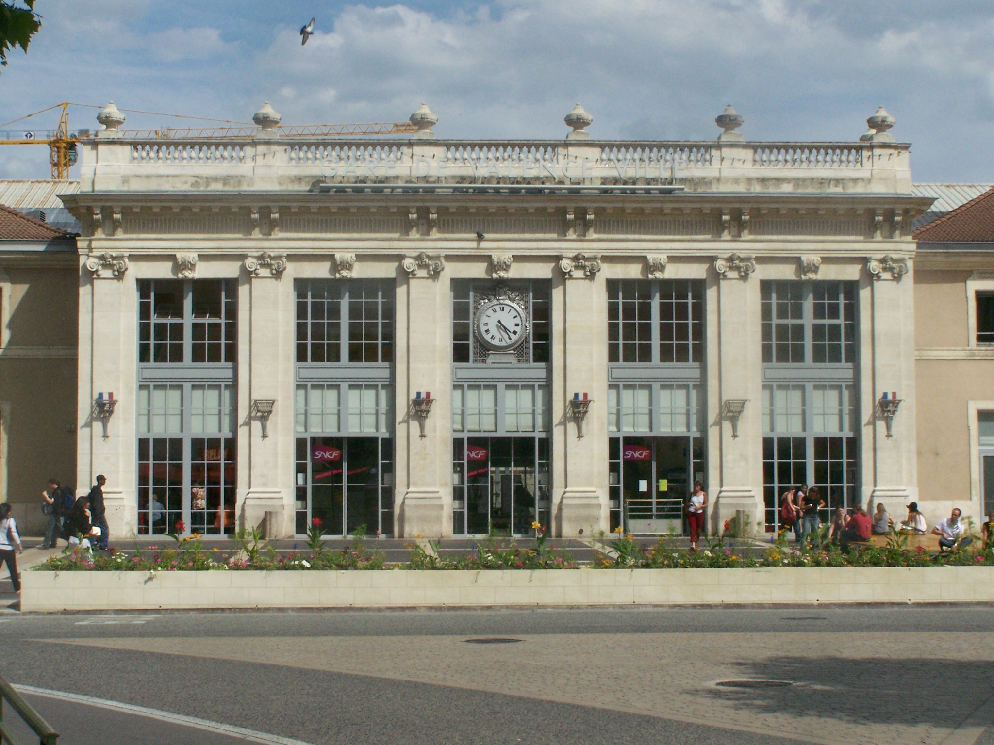 Front of the French station of Valence-Ville, in Drôme.